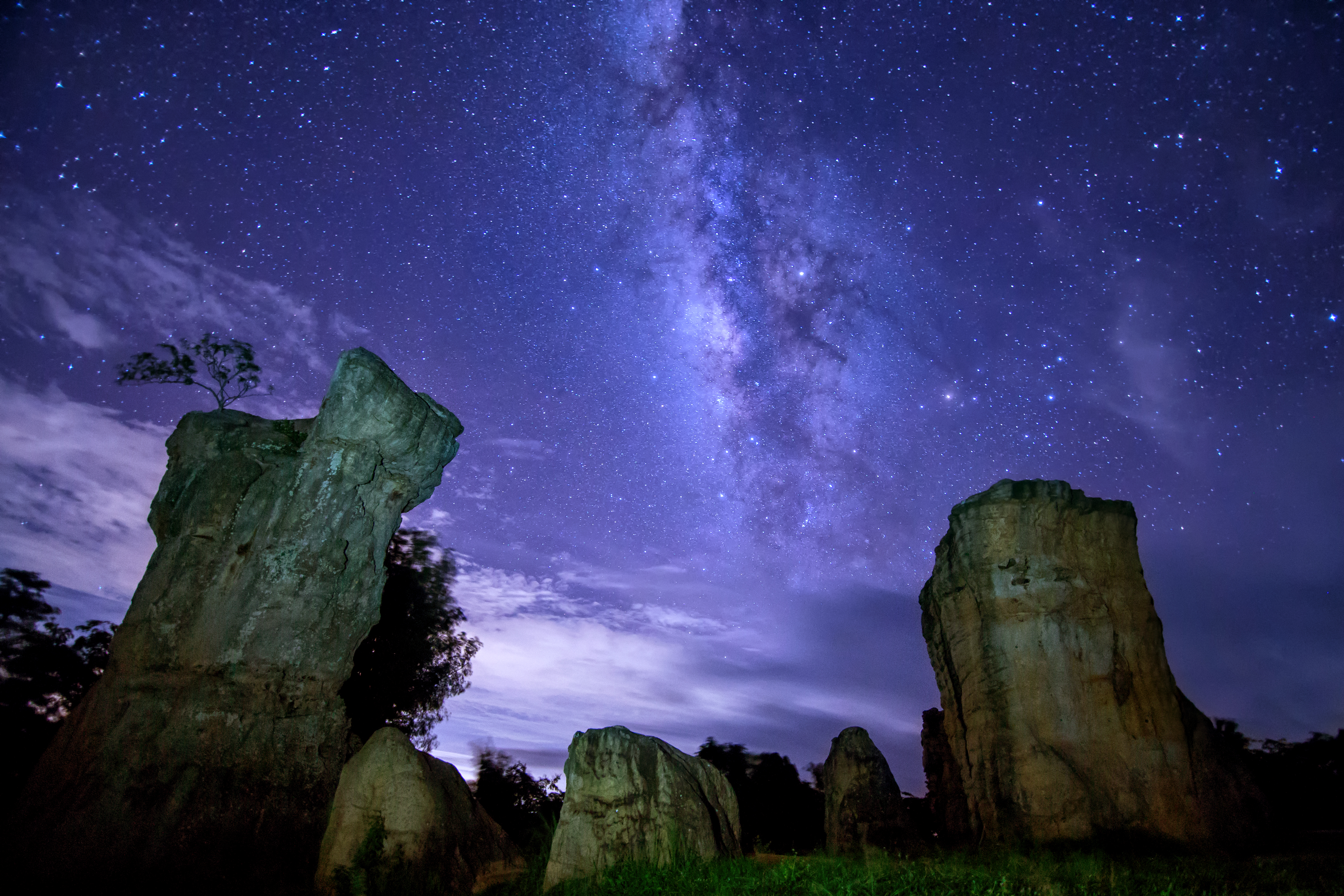 Mo Hin Khao, the hill of hugh rock formations located in the area of Phu Laen Kha National Park, Chaiyaphum Province